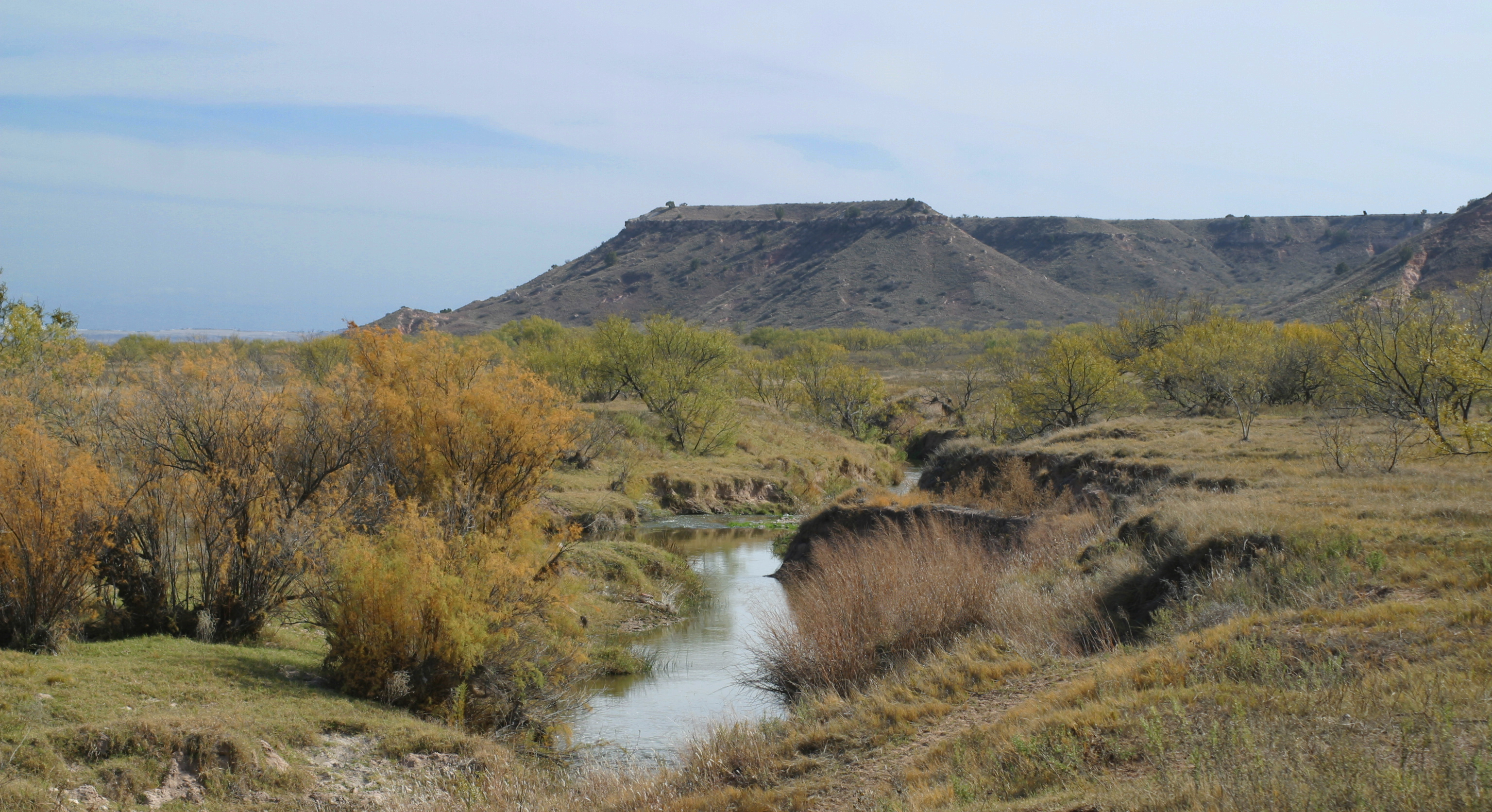 North Fork Double Mountain Fork Brazos River flowing through Yellow House Canyon — in Lubbock County, WestTexas. The Double Mountain Fork is a tributary of the Brazos River, in the Llano Estacado region.